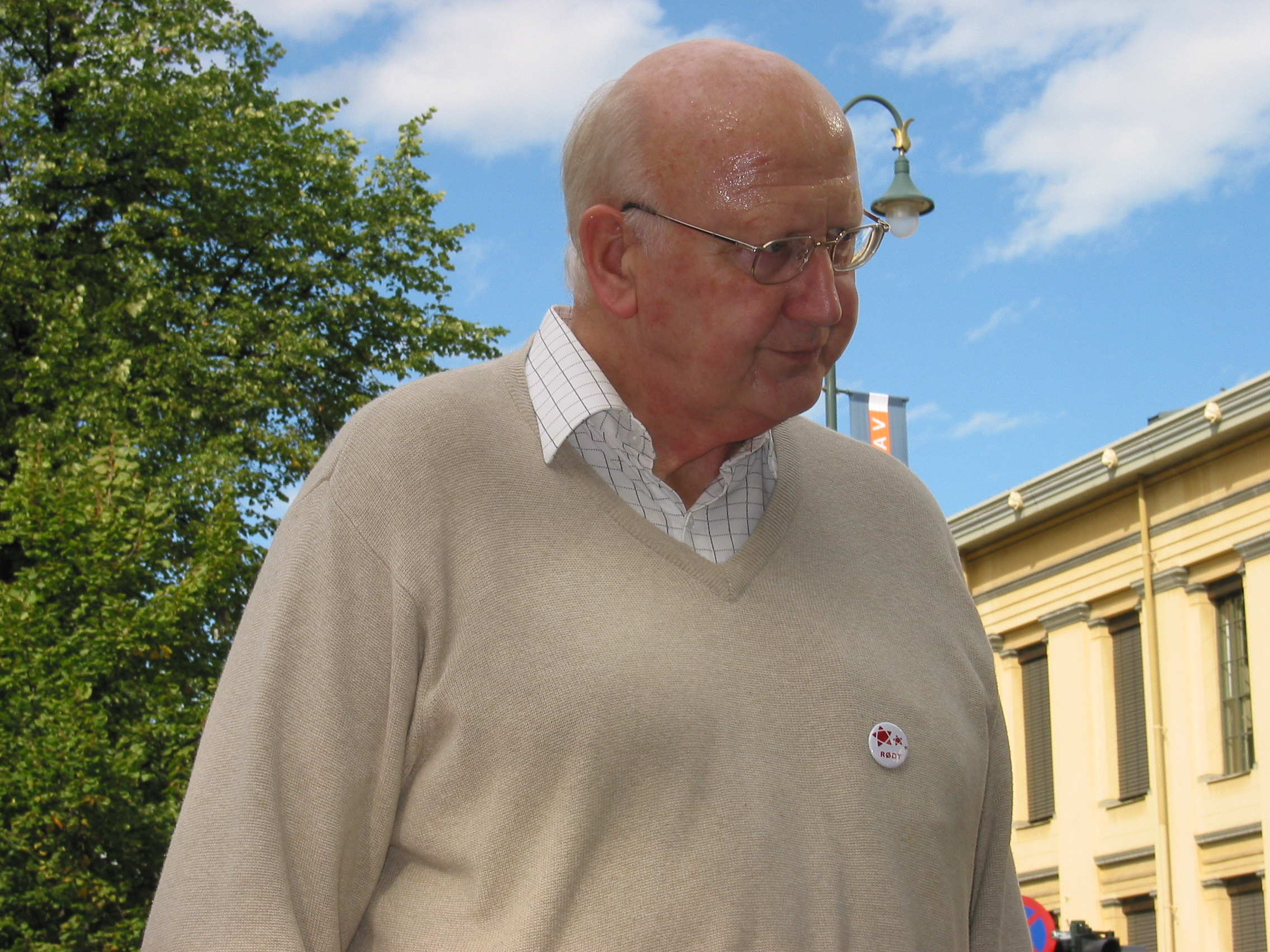 Torstein Dahle campaigning in Karl Johans gate, Oslo before the 2009 Norwegian election.